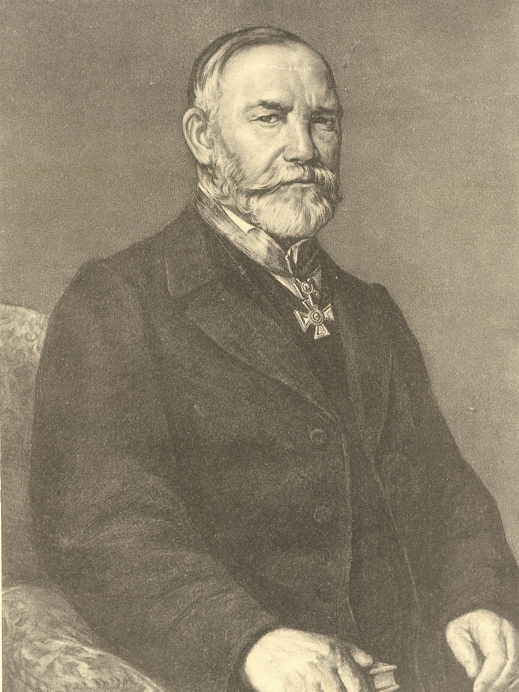 Portrait of Janko Šafarik (1814-1876), Slovak scientist, doctor, numismatist, museologist and librarian